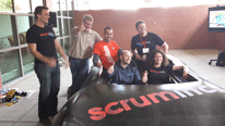 Finished Wikispeed car at Agile DC 2013